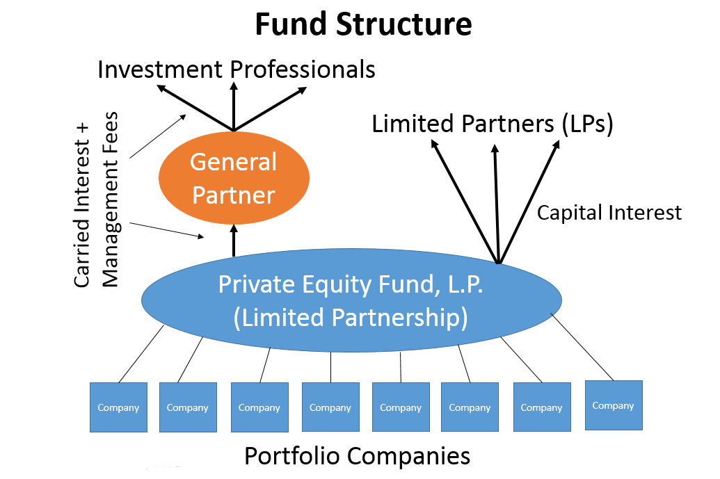 Fund structure of a hedge fund or private equity fund which shows the "carried interest' for tax purposes